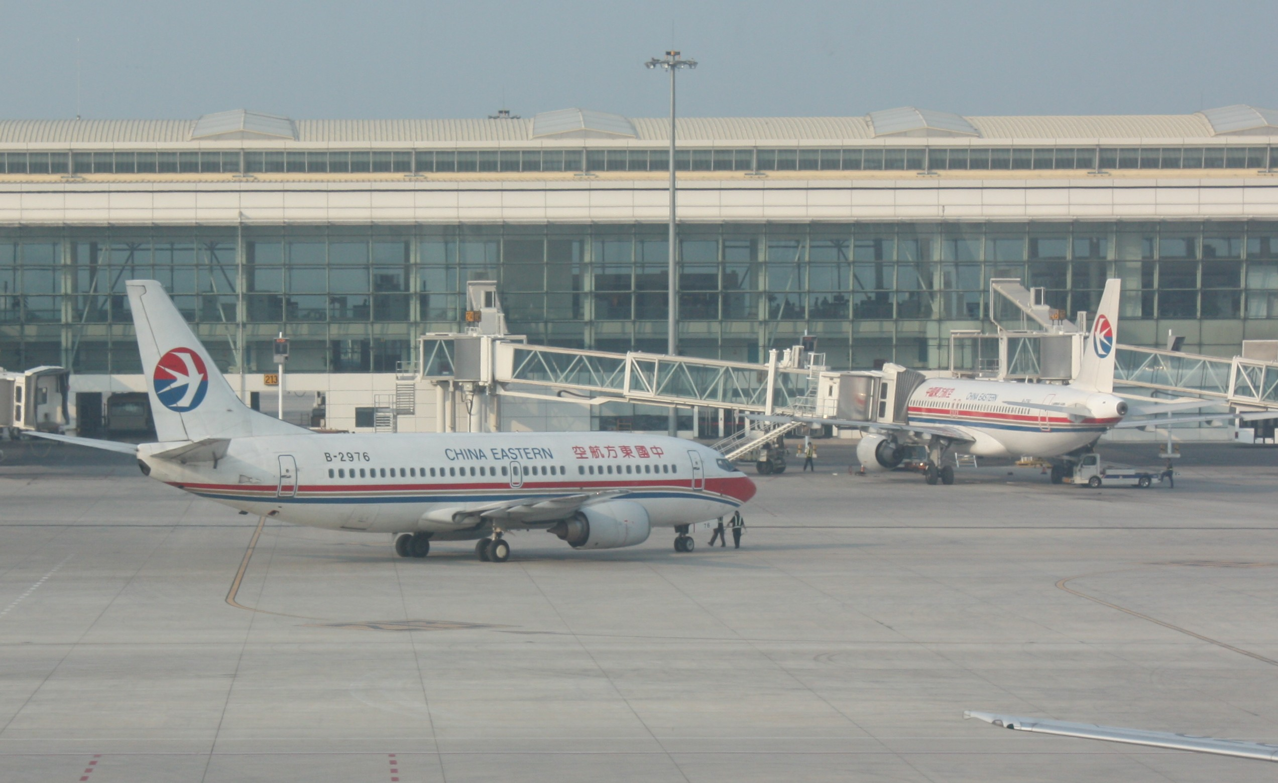 Two Aircrafts of China Eastern in Wuhan Airport